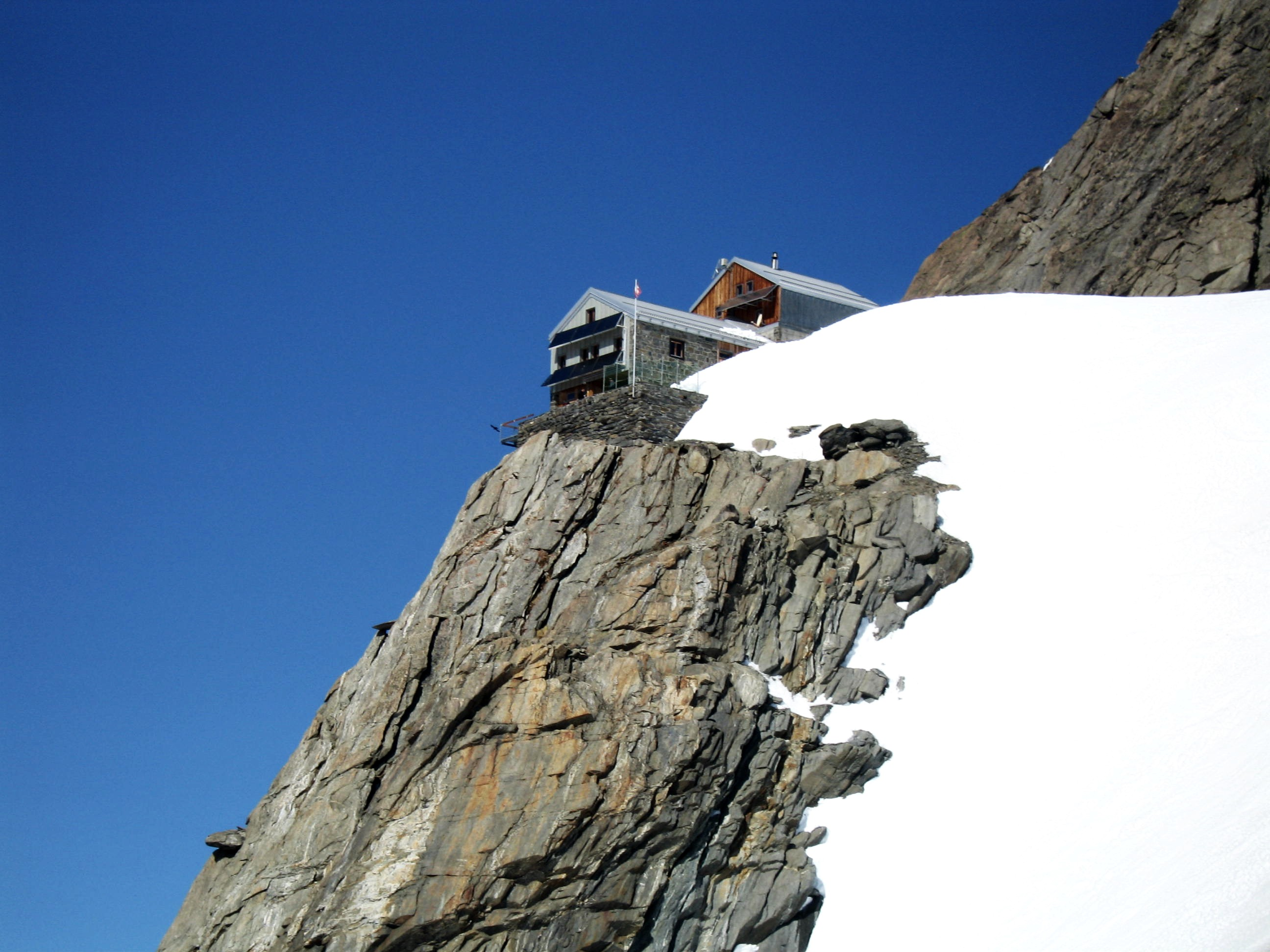 Hollandiahütte, Valais